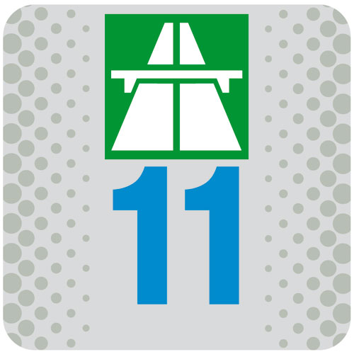 Swiss Highway-Roadtax-Vignette.